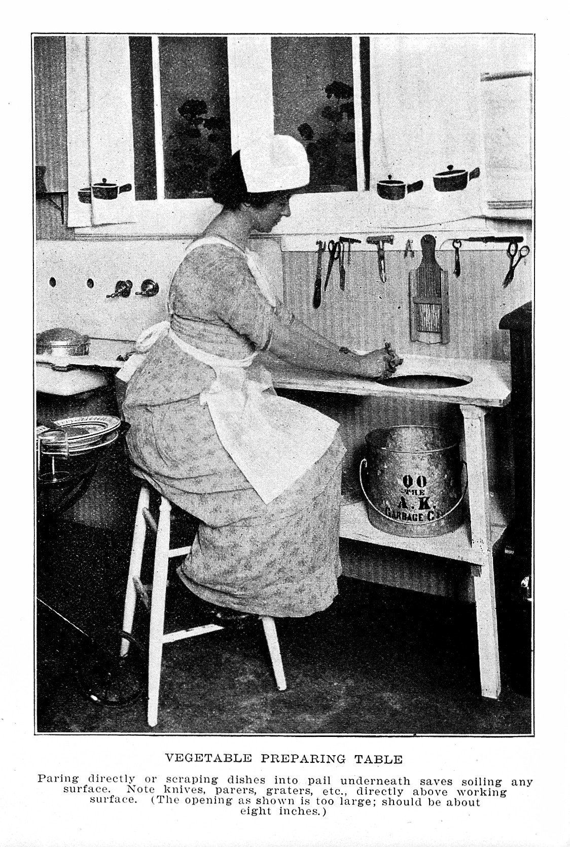 Vegetable preparing table General Collections Keywords: home economics; Christine Frederick